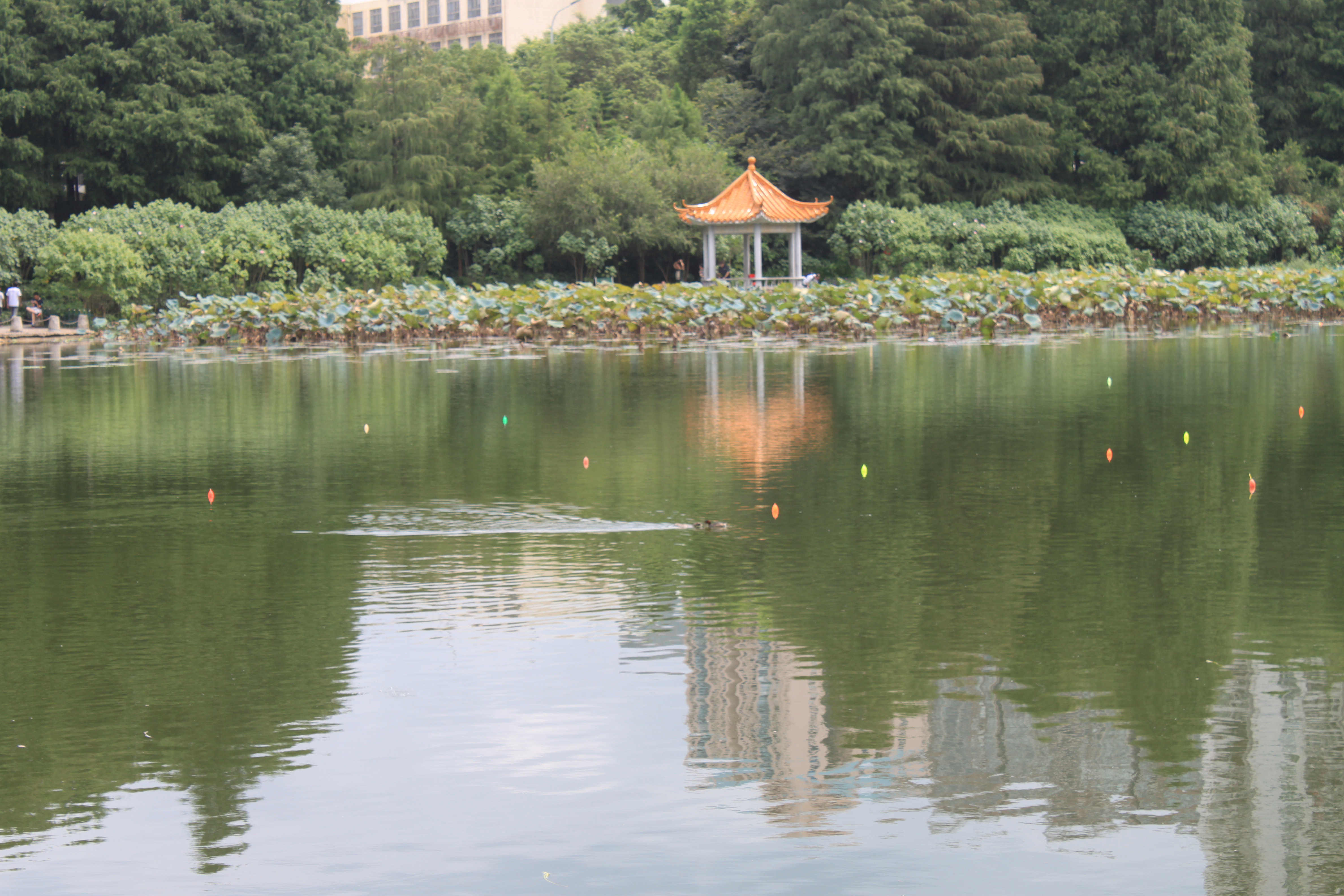 The Lotus pond of Honghu Park in Shenzhen, Guangdong, China.